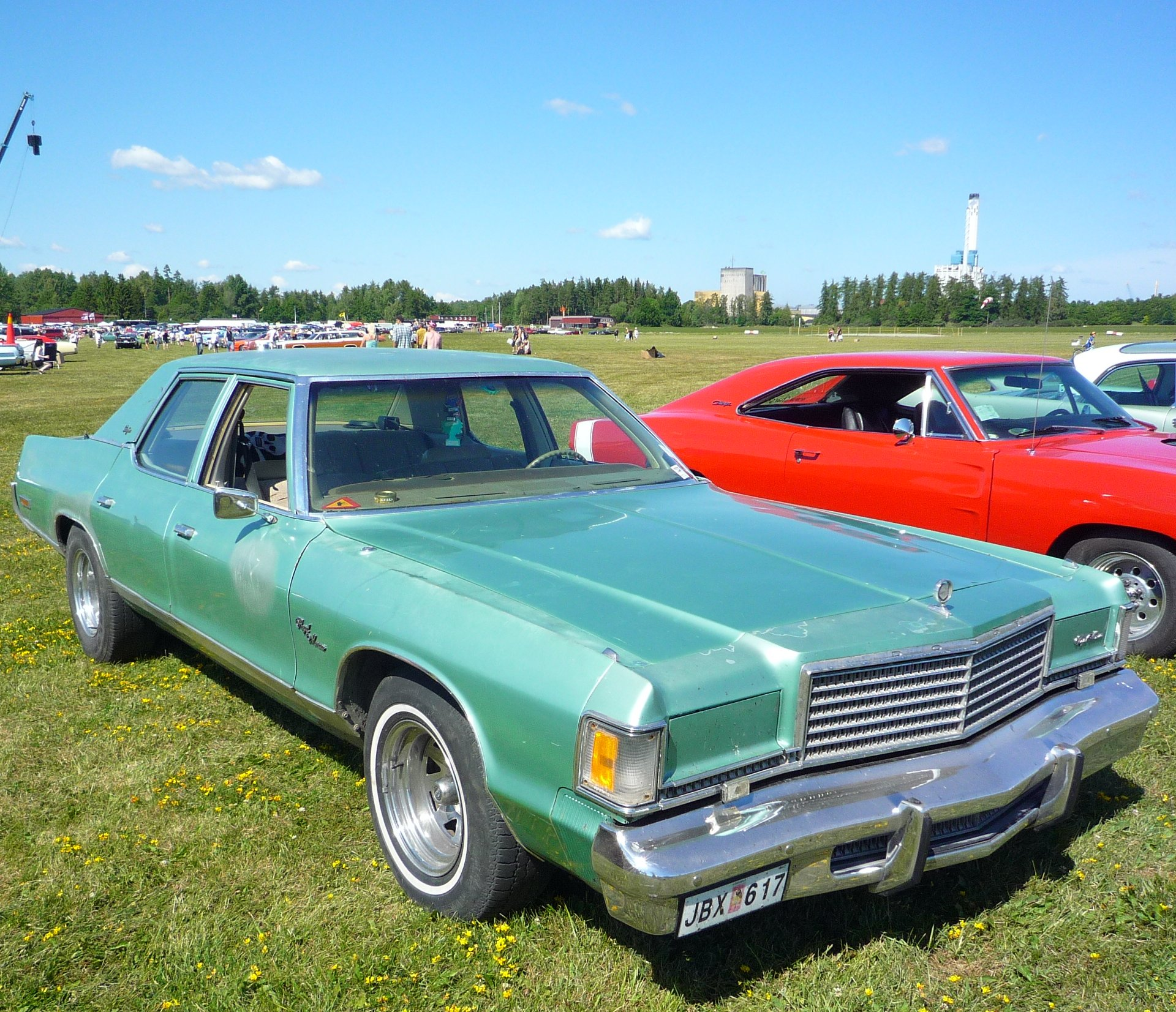 the badge on the side says something like "Royal Monaco"...